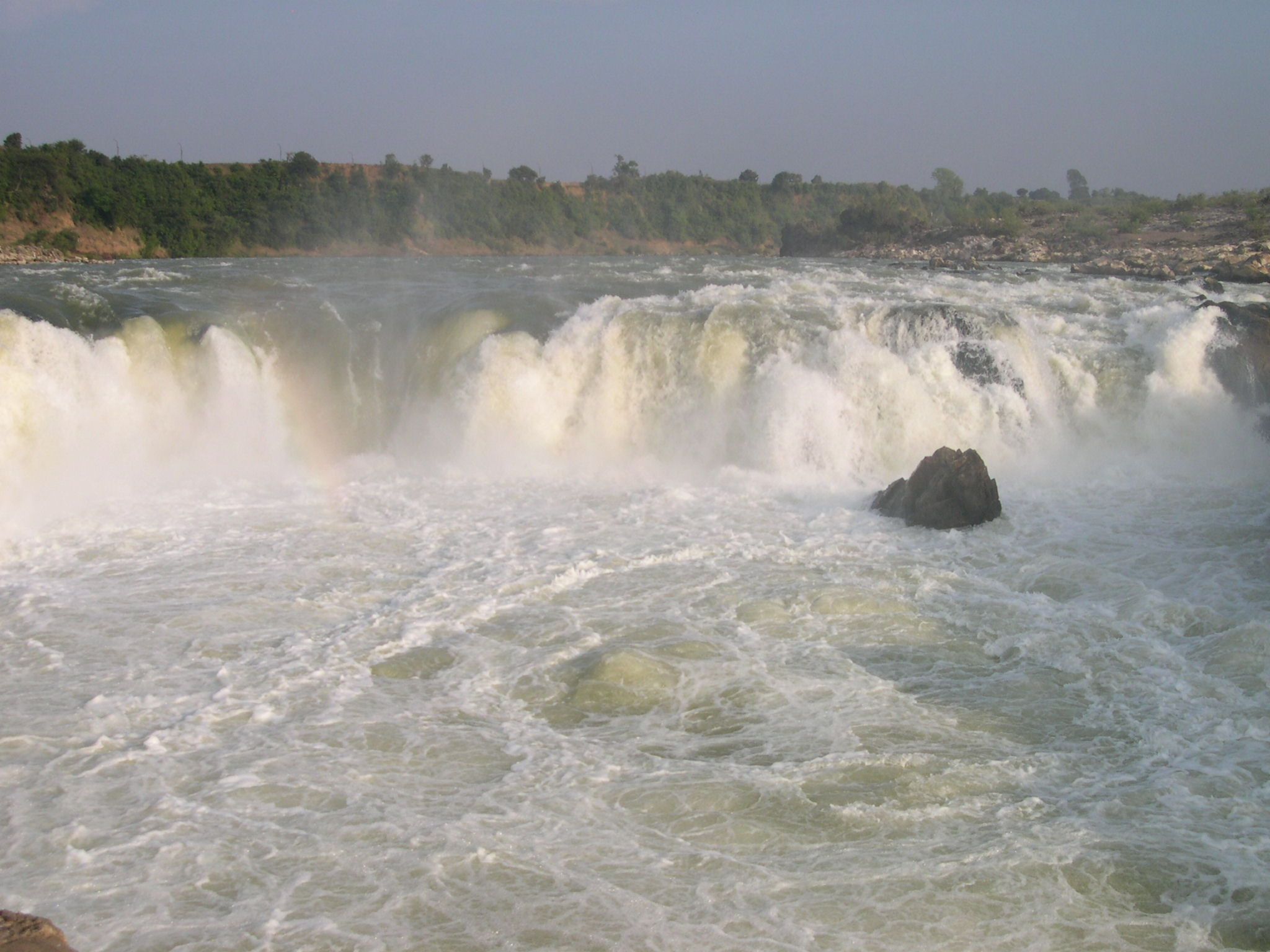 Author: Chandra Prakash Baherwani. I click this picture and release it to the public domain.